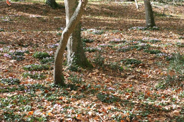 (en) Cyclamen purpurascens, a photography originating of the internet site The accord of the autor, H. Brisse, is here. (fr) (Cyclamen purpurascens), une photographie issue du site internet L'accord de l'auteur, H. Brisse, se situe ici.